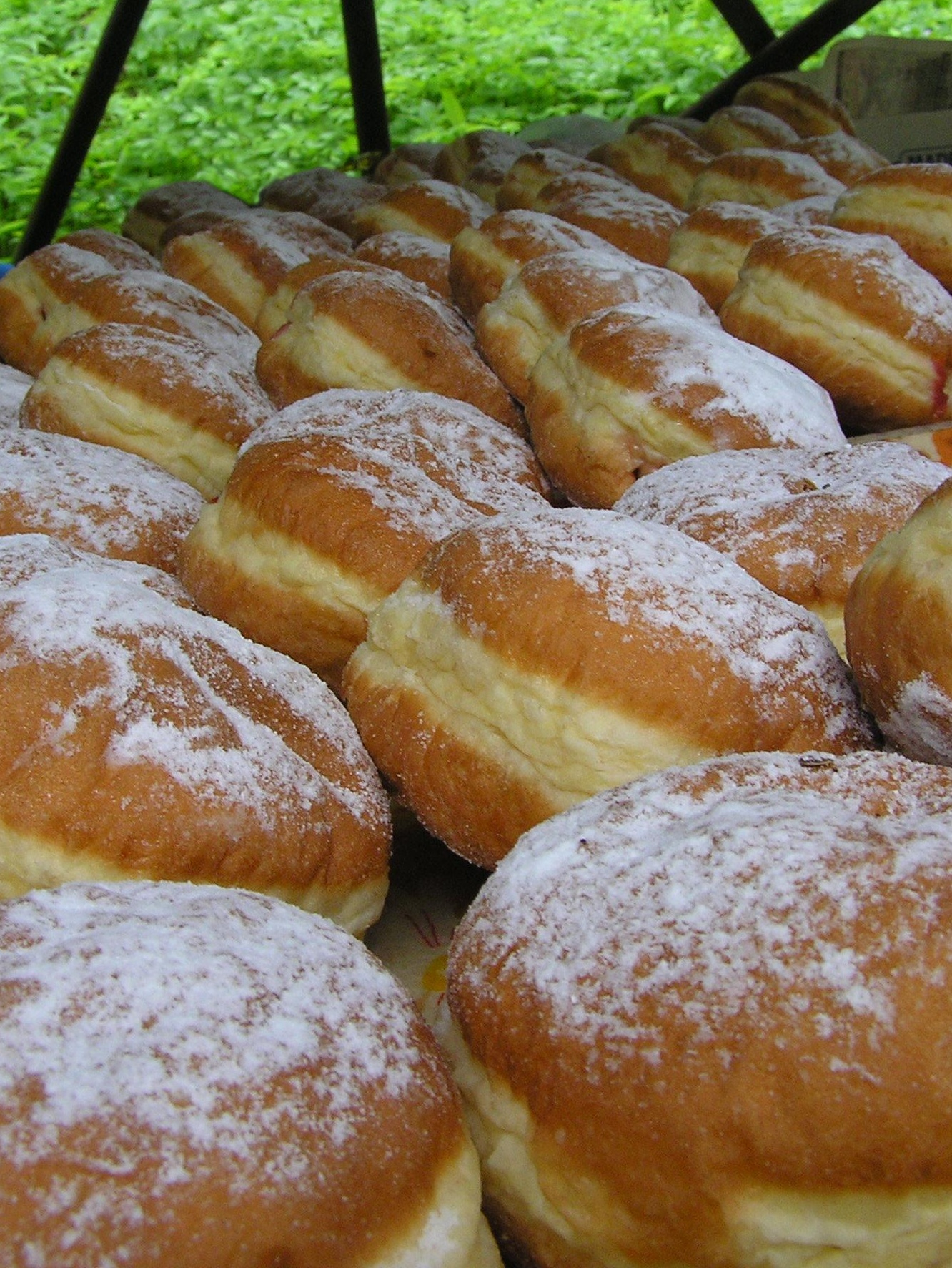 Doughnuts from czech bakery